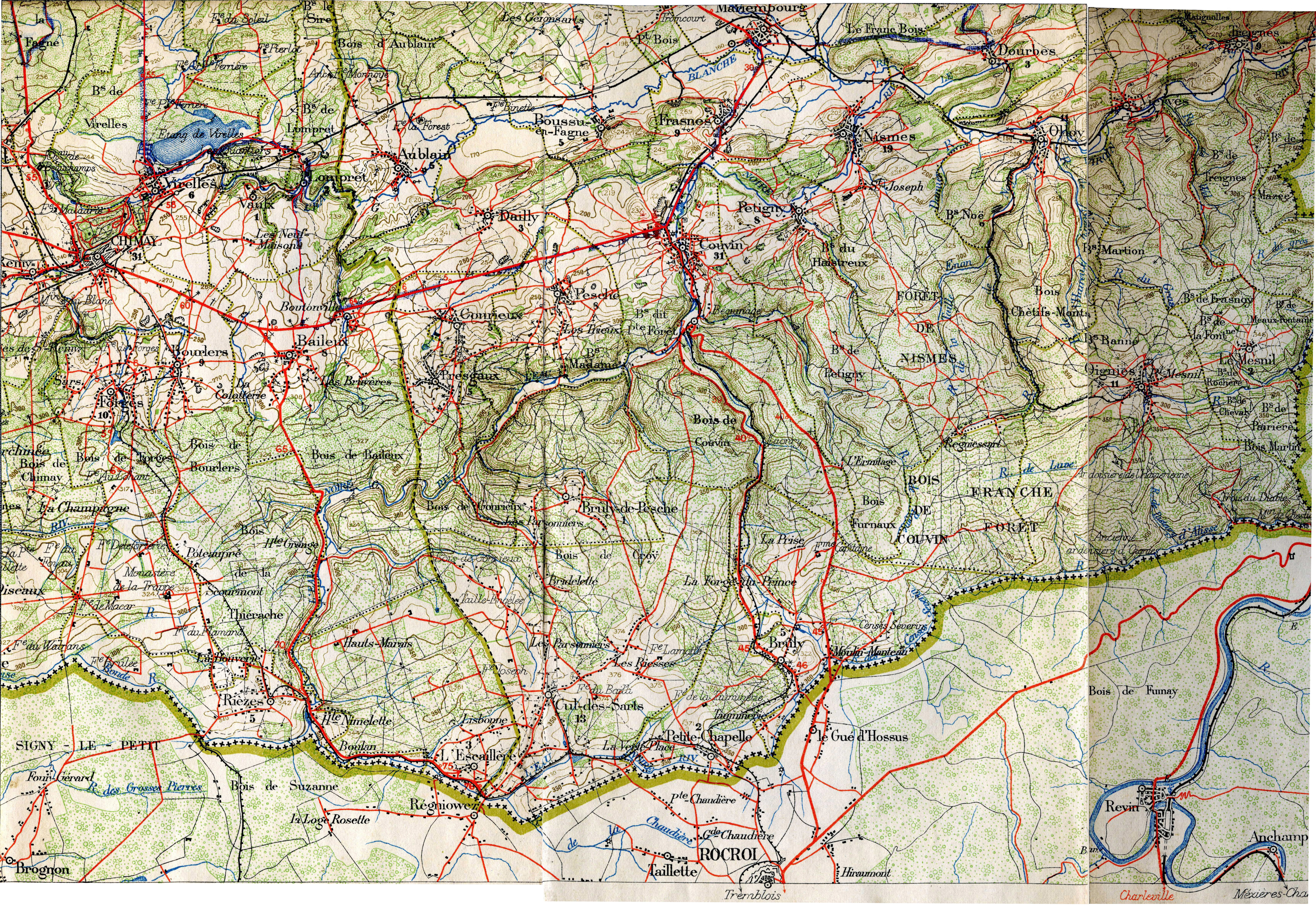 Militairy staff map in the area around Chimay and Mariembourg in 1933. It shows the vicinal lines (Couvin Chimay, Ohoy Oignies en several railways. This military staff map was cut up and pasted on a canvas. Is edited and merged. Railway lines are black lines with marks on one side. Smalltrack is a thinner line. If there are marks on both sides it is double track.